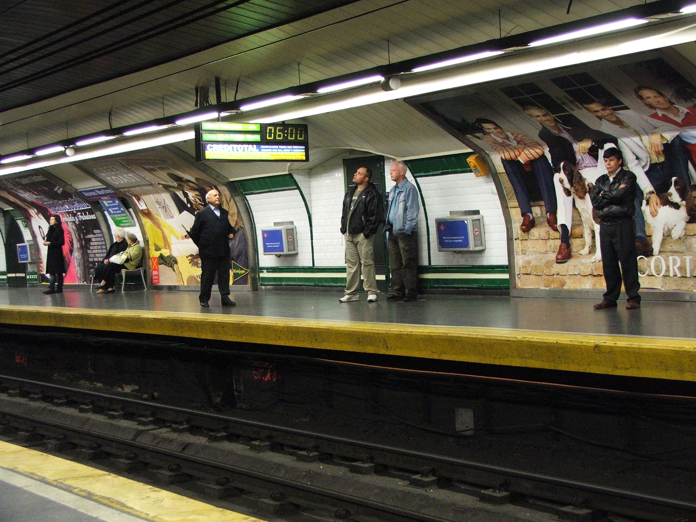 Madrid's underground station Alonso Martínez, Madrid, Spain